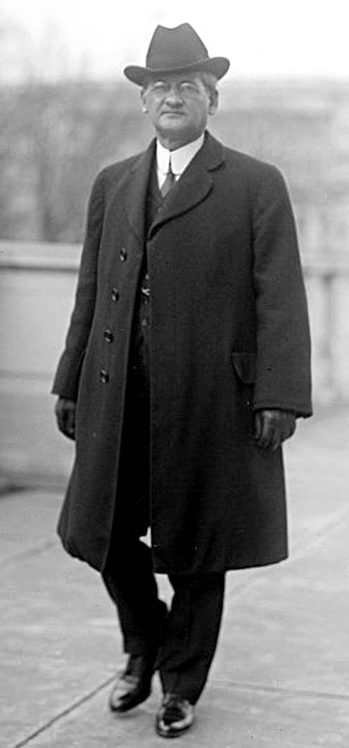 Robert F. Broussard, US Senator and Congressman from Louisiana